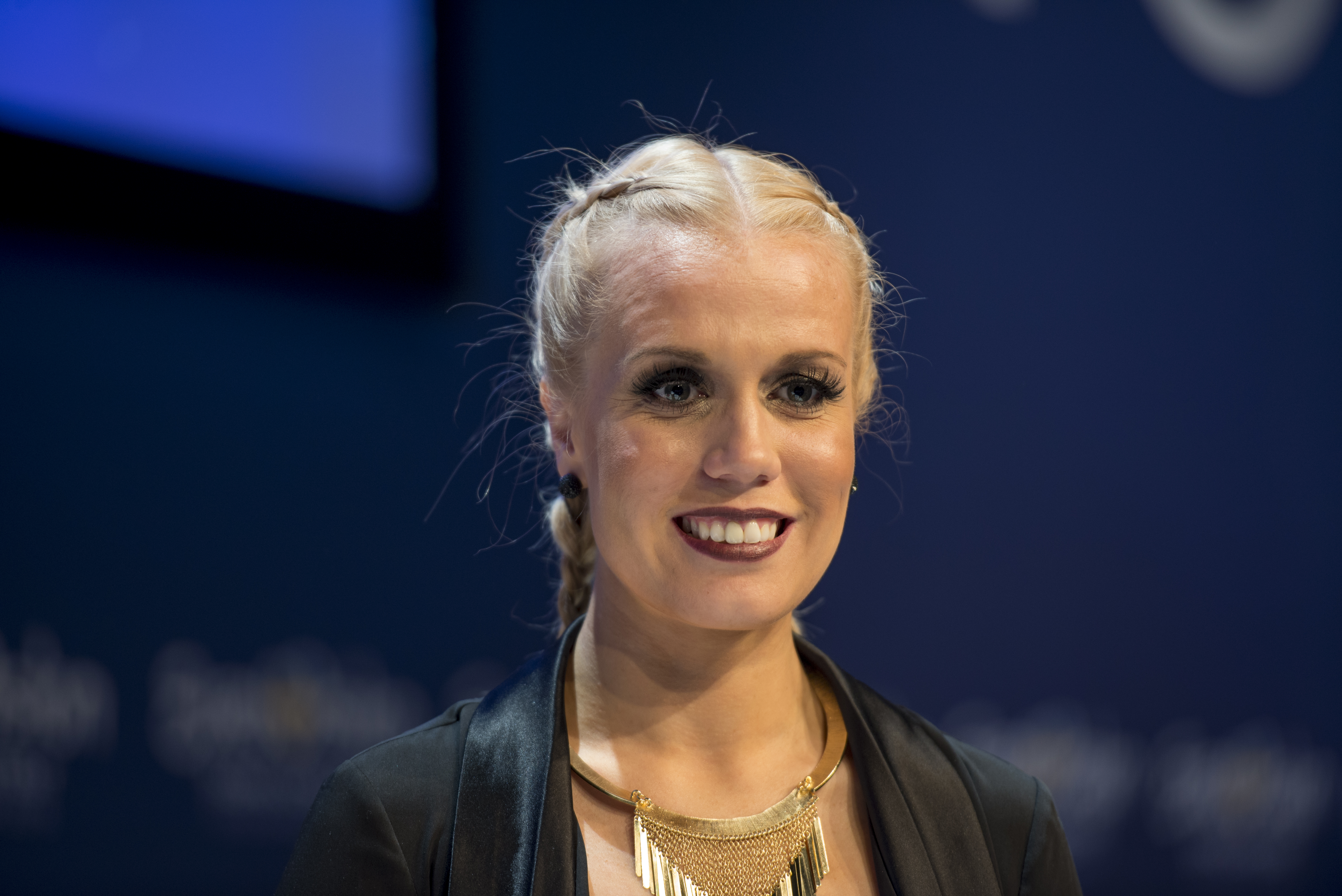 Greta Salóme at a Meet & Greet during the Eurovision Song Contest 2016 in Stockholm. (Help translate this text)